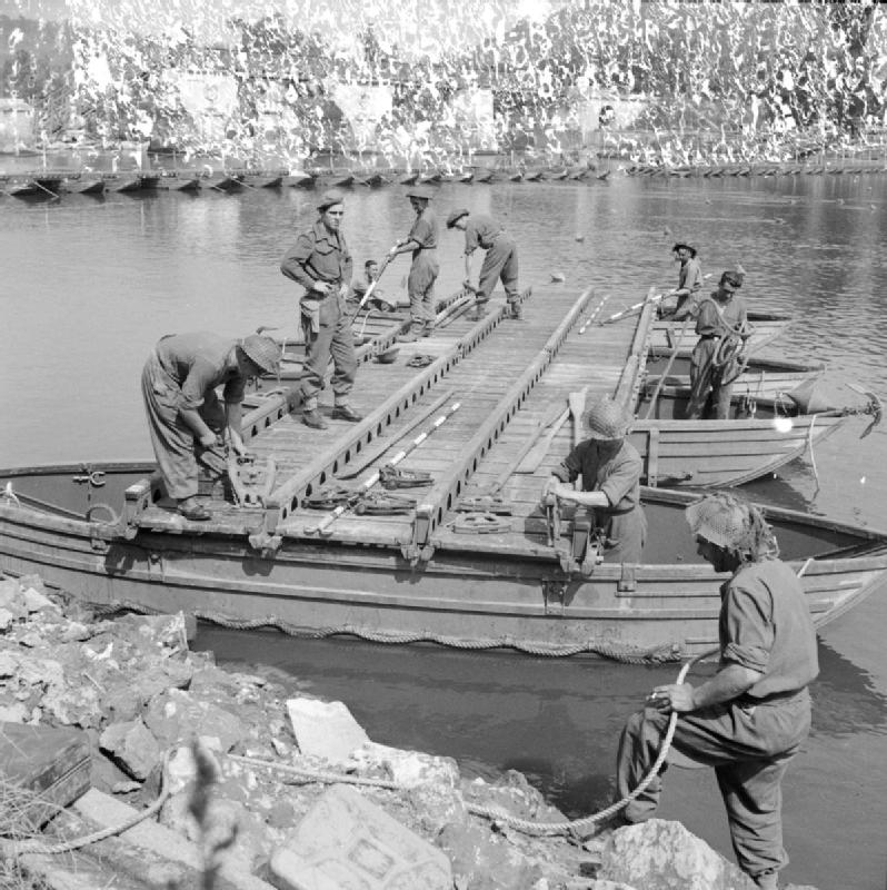 The British Army in North-west Europe 1944-45 Royal Engineers repairing part of the pontoon bridge over the Seine at Vernon, damaged by German mortar fire, 27 August 1944.